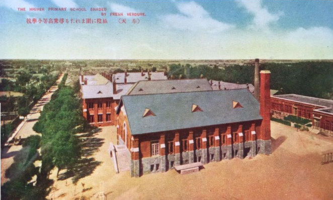 Mukden junior high school in SMR Zone